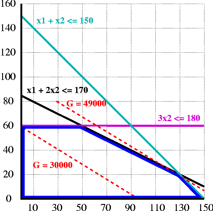 Linear Programming polytope.